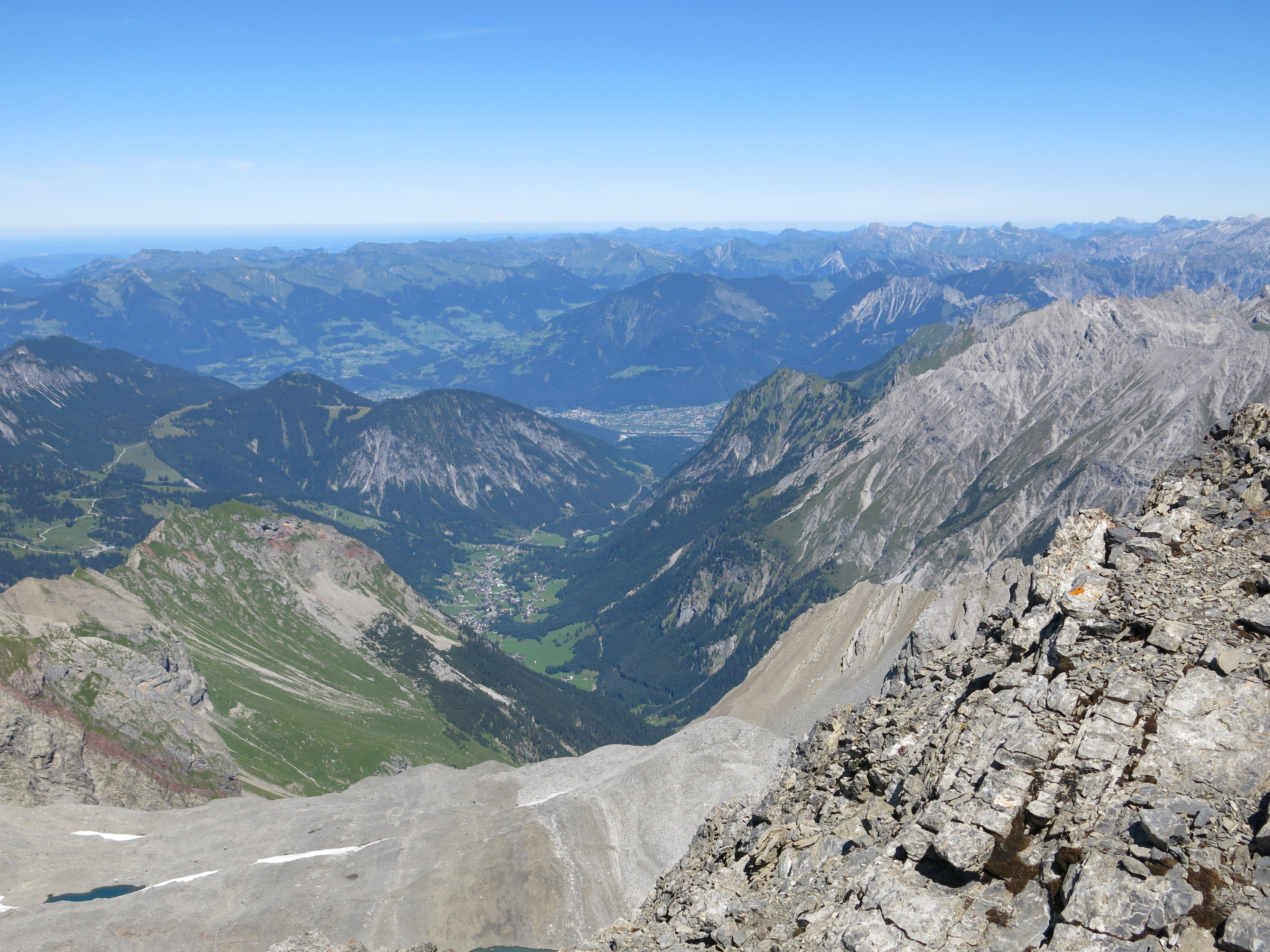 View from the summit of the Schesaplana northeastward into the valley of Brand, Vorarlberg